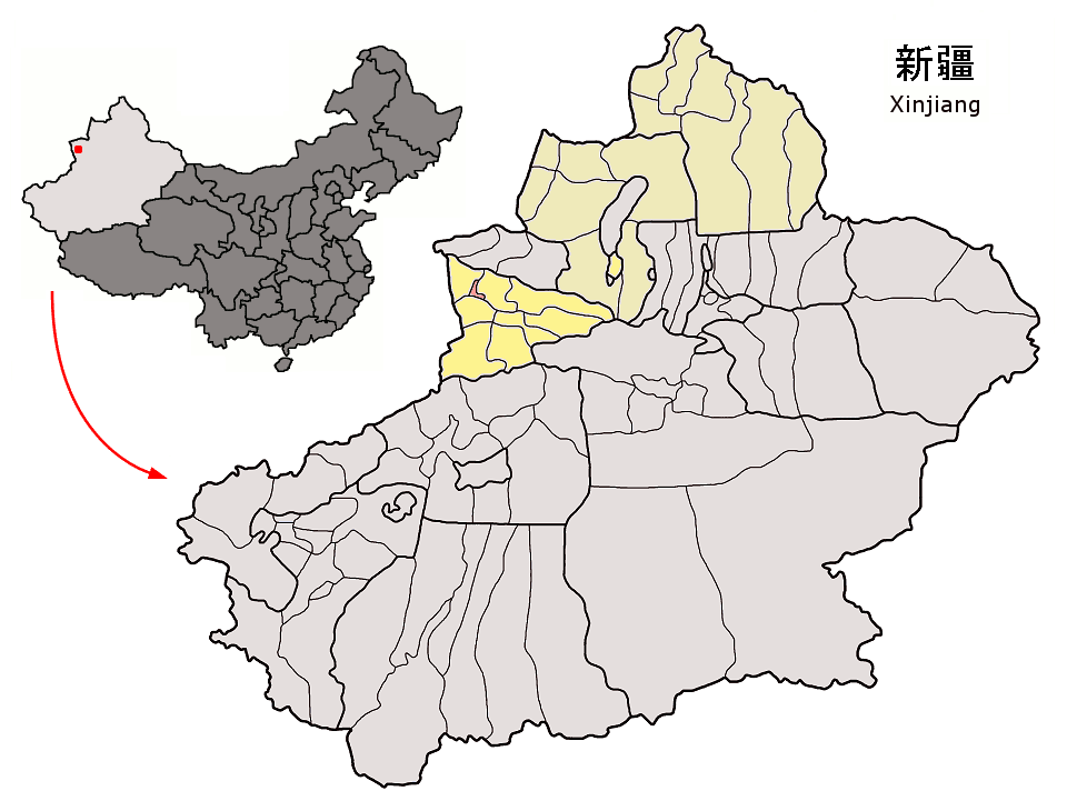 Location of Yining City (pink) and Ili Prefecture (yellow: subdivisions under direct administration of Ili Prefecture, ecru: subdivisions under administration of Tacheng and Altay Prefectures) within Xinjiang autonomous region of China Map drawn in september 2007 using various sources, mainly : Xinjiang Uygur autonomous region administrative regions GIS data: 1:1M, County level, 1990 Xinjiang Counties map from